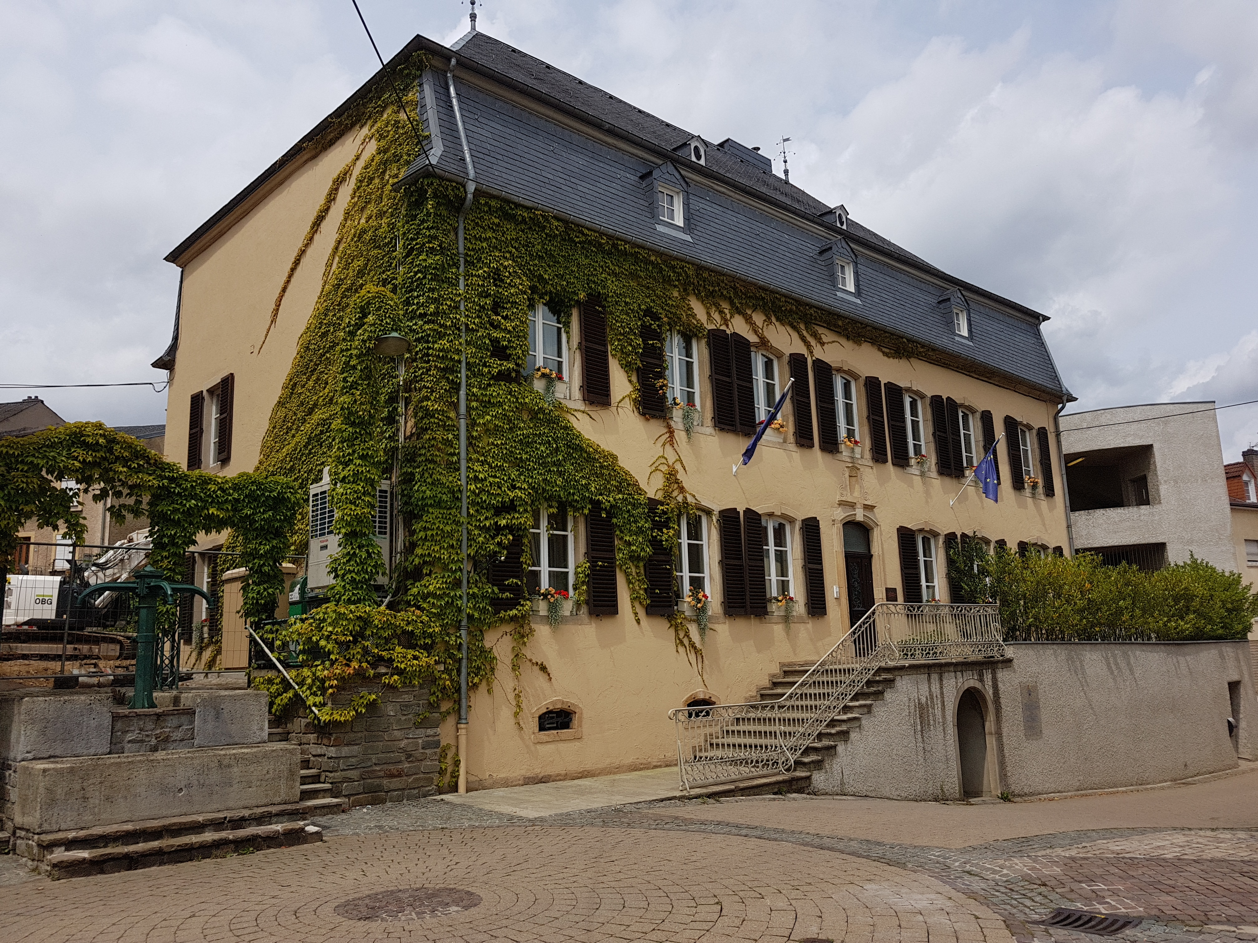 The Kochhouse in Schengen was built in 1779 and named after the Schengen Palace Administrator Johann Peter Koch. It is located near the Schengen Castle and was initially used as a residence for guests. Since March 20, 1967, the Kochhouse is a protected monument in Luxembourg.